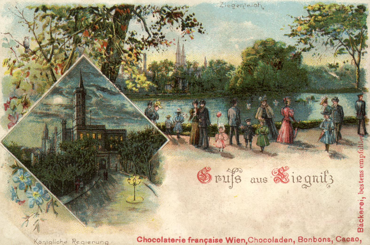 View of the castle in Legnica, 19th century